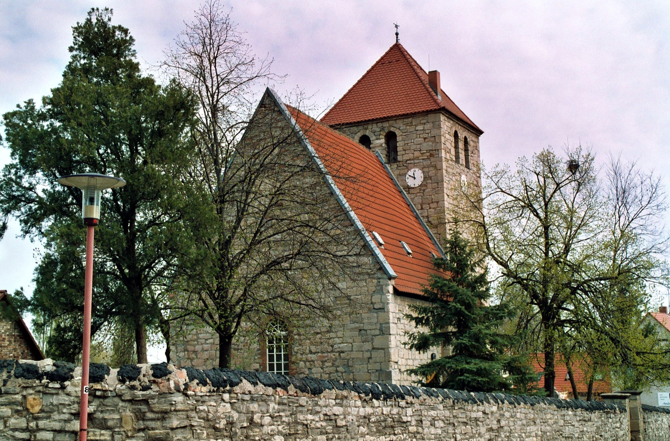 Amsdorf (Seegebiet Mansfelder Land), the village church